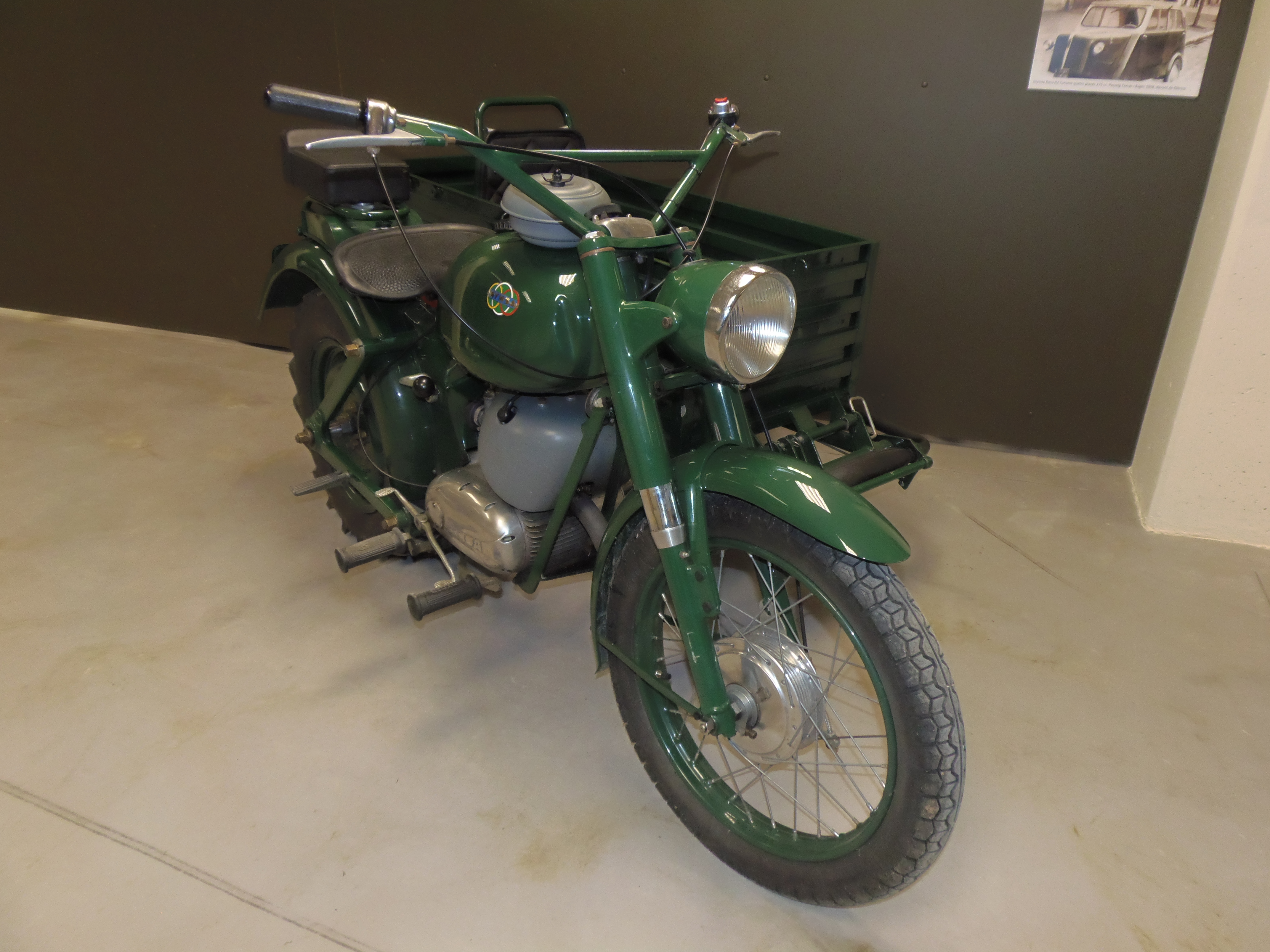 Mymsa X-3 Rural 175cc, 1959